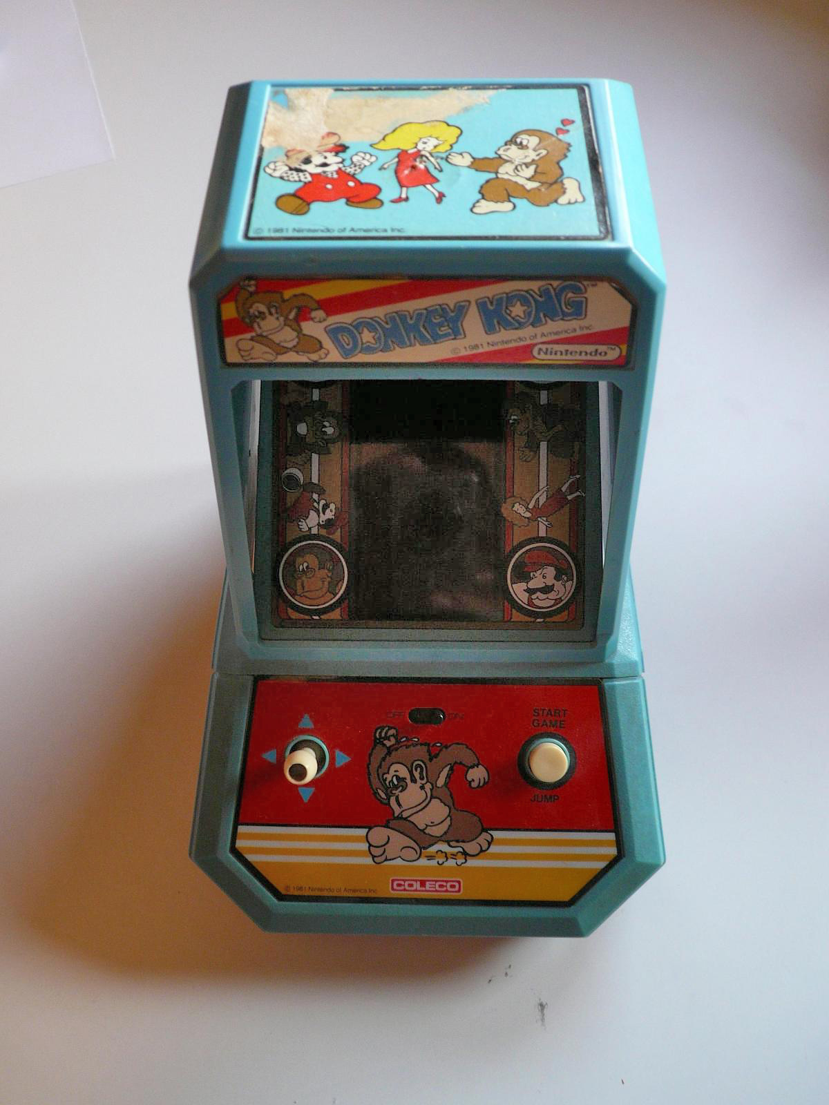 80's Donkey Kong tabletop.